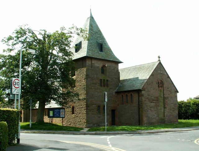 St. John's Episcopal Church, Eastriggs A church in the Arts and Crafts style, built in 1917 . The township of Eastriggs was created during World War I to house thousands of workers at a vast new munitions site - H.M. Factory, Gretna HM_Factory,_Gretna .